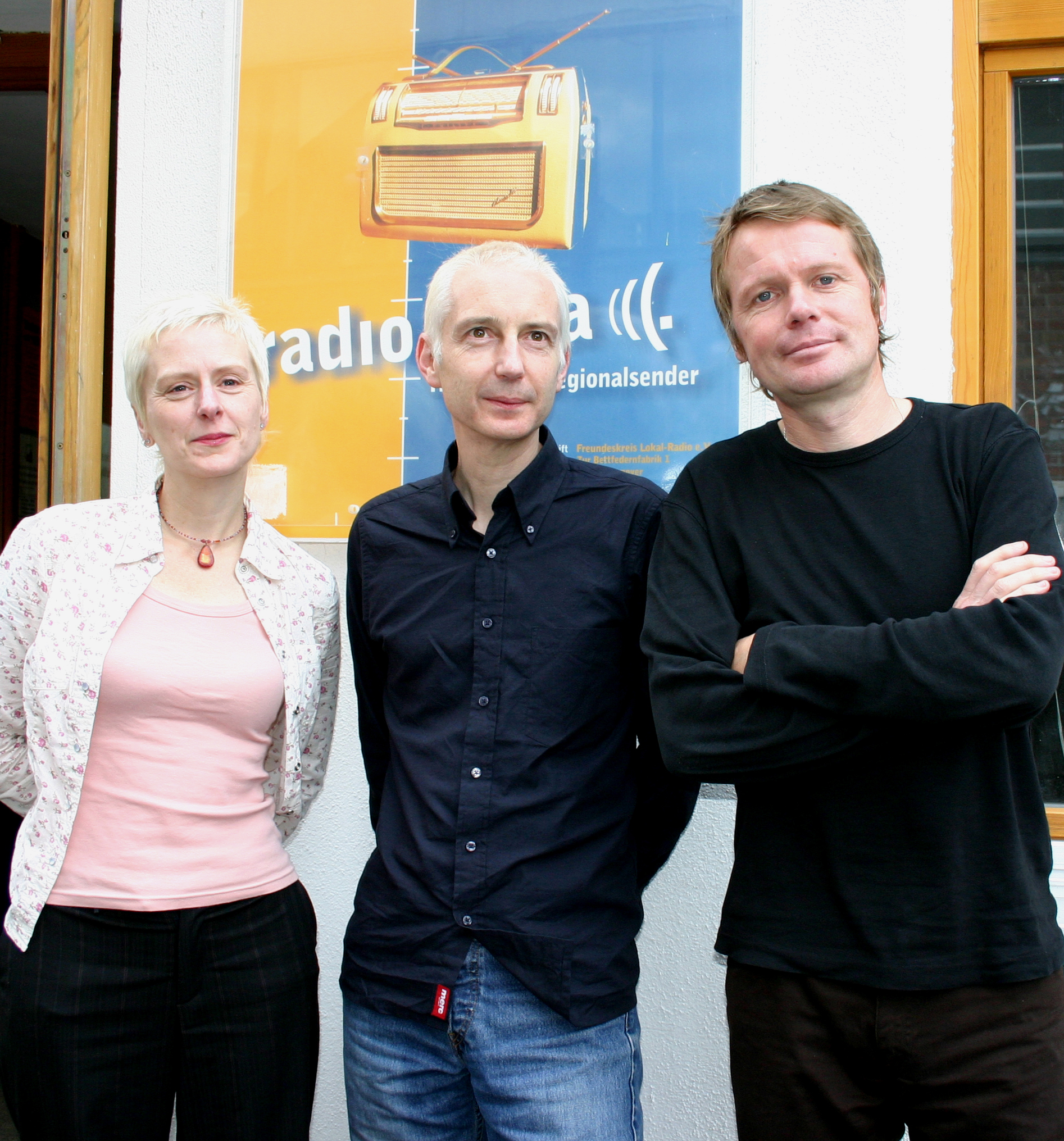 Jude Abbot, Neil Ferguson and Boff Whalley of Chumbawamba in 2005